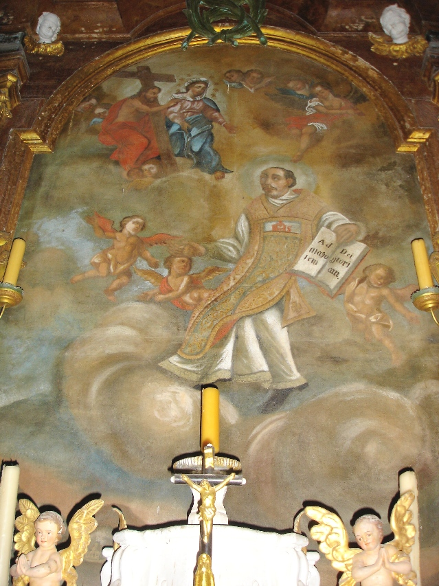 Saint Ignatius of Loyola Church, Rdeči Breg, painting od saint Ignatius of Loyola in the high altar.